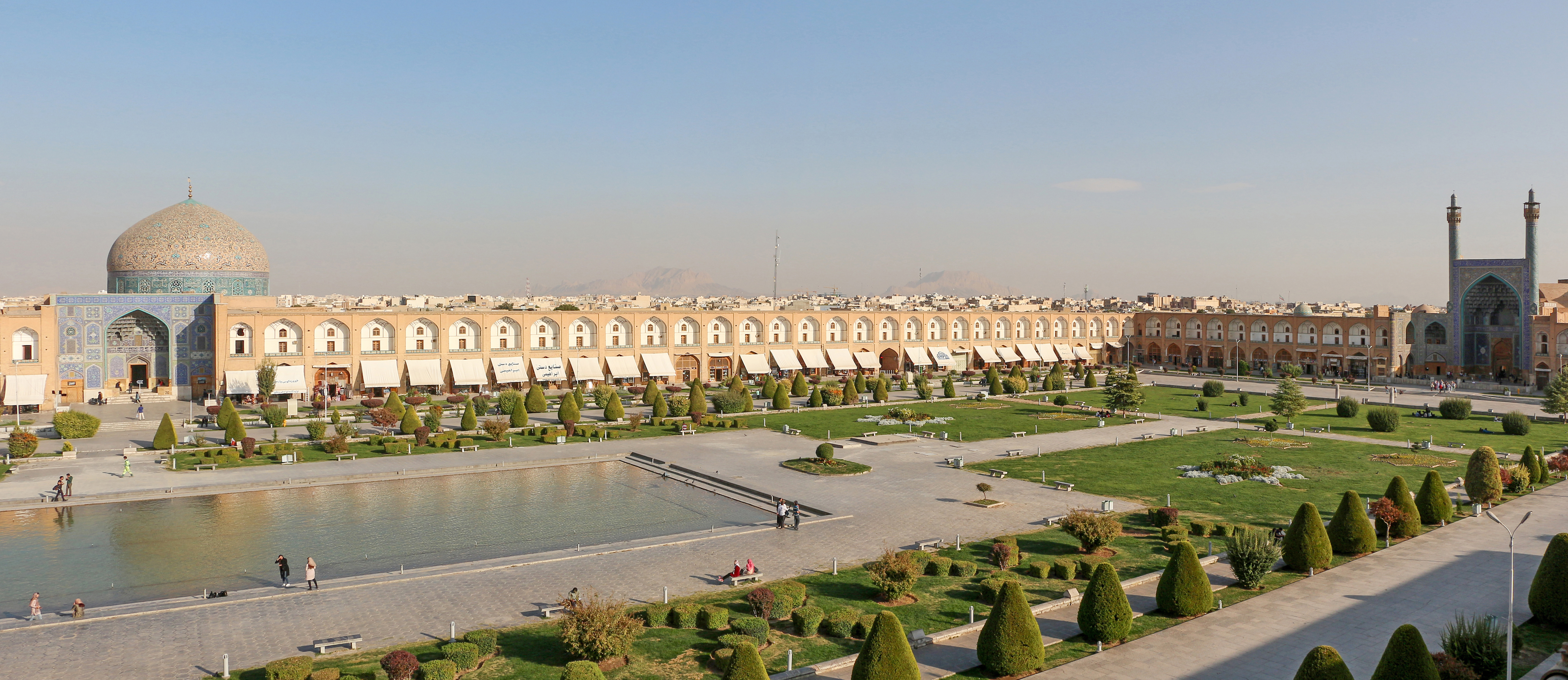 Naqsh-e Jahan Square, Isfahan, Iran